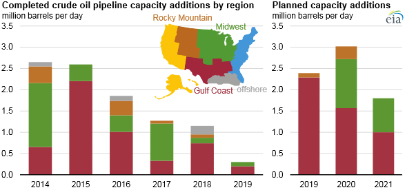 In May 2019, EIA launched a new liquids pipeline projects database in that tracks more than 200 crude oil, hydrocarbon gas liquids (HGL), and petroleum products pipeline projects. May 30, 2019